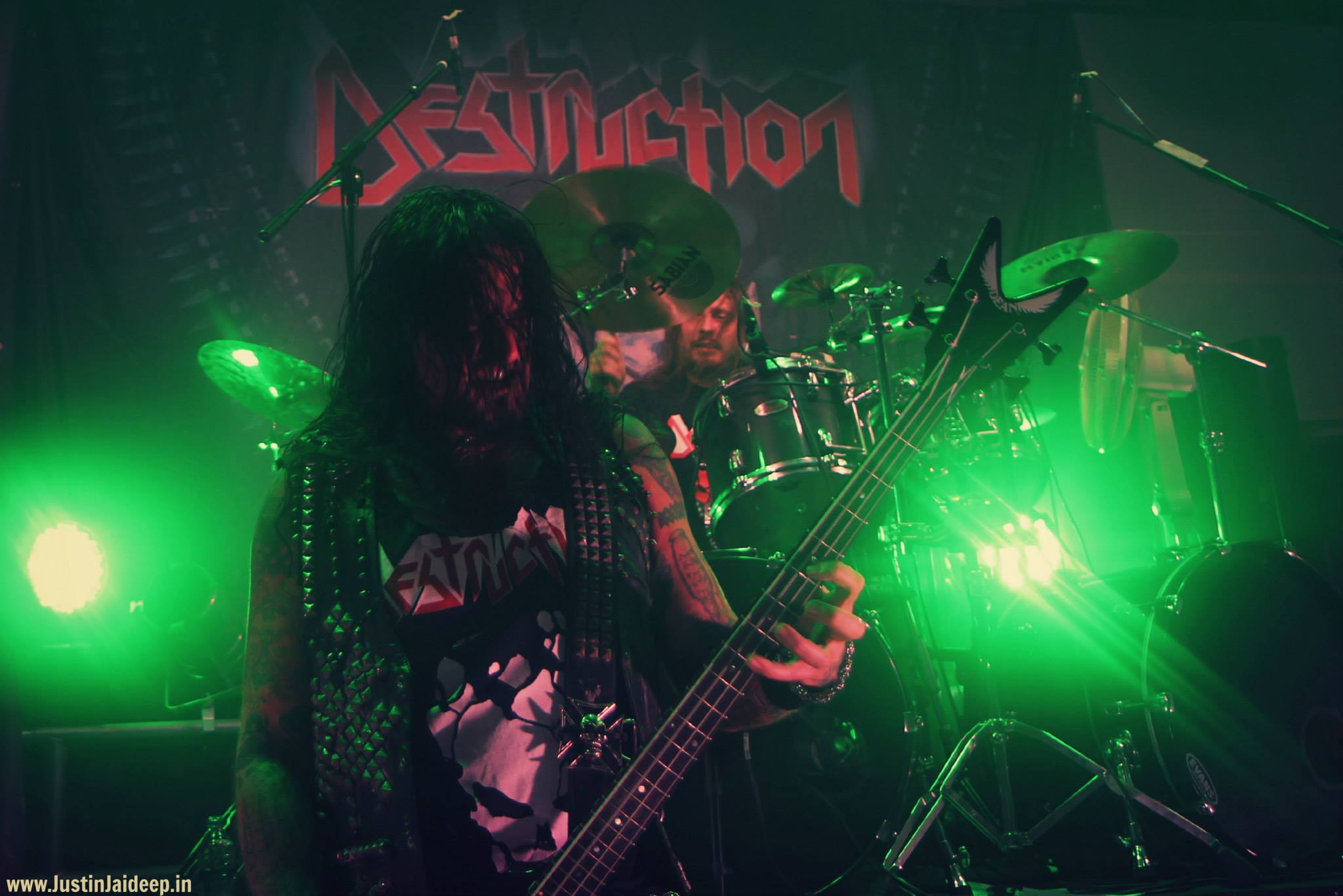 Destruction band playing BOA 2014